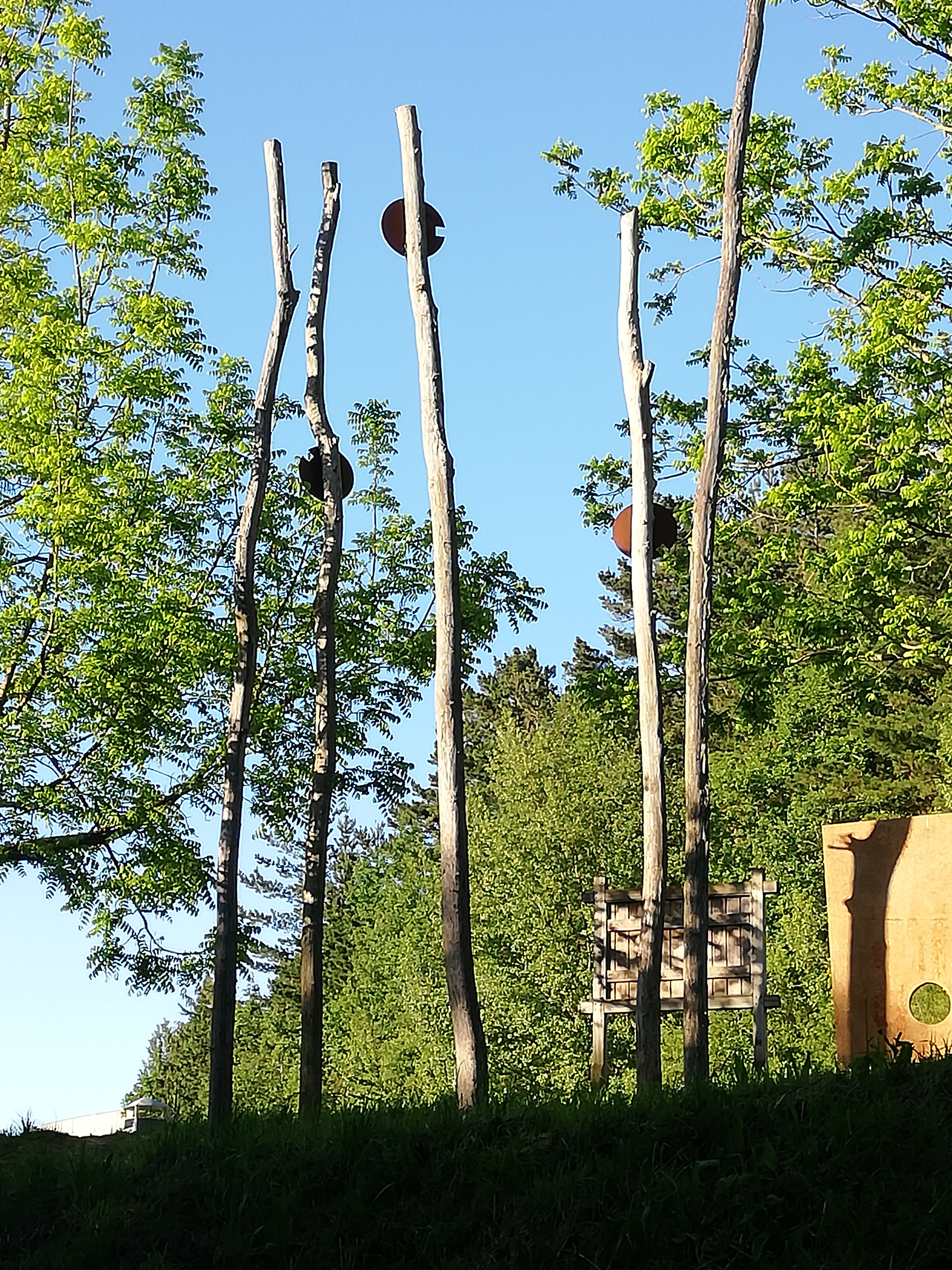 The park has different entrances.